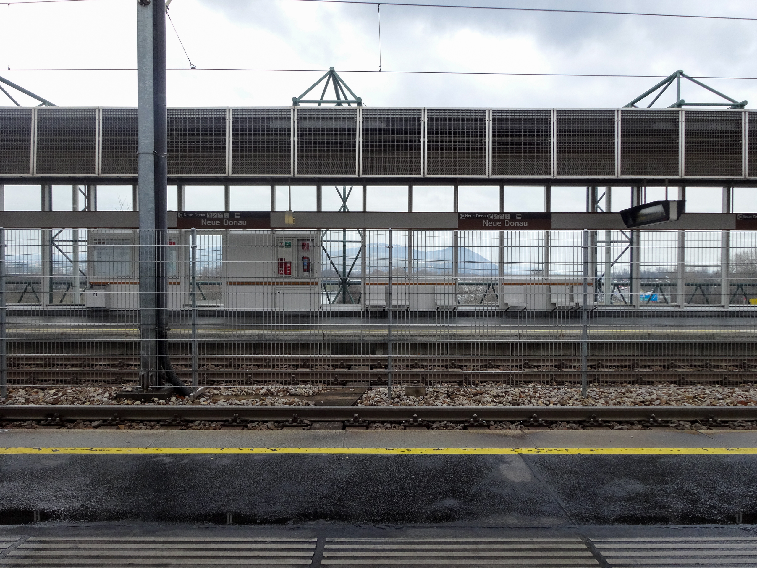 Neue Donau Wien U-Bahn Station